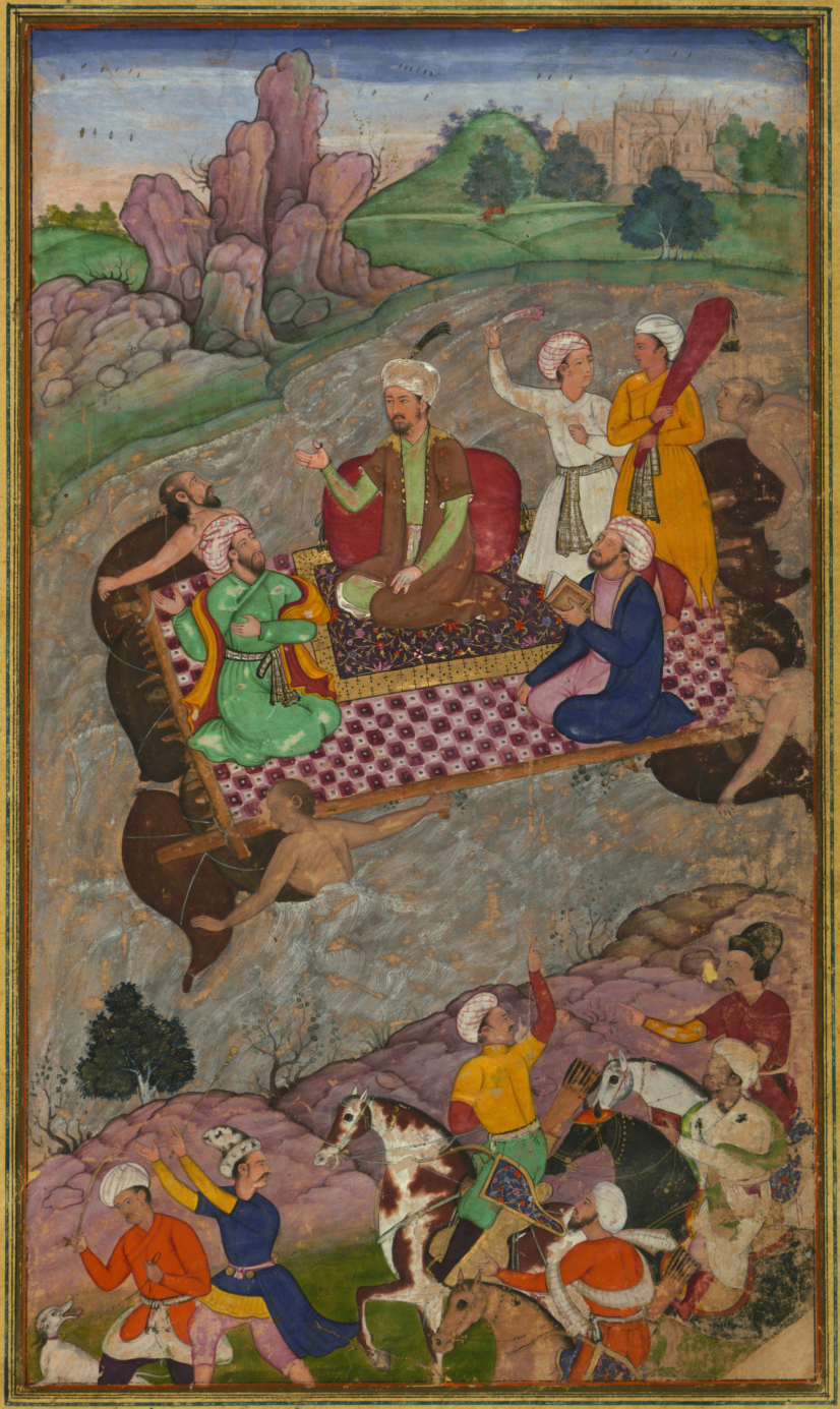 Illustrations from the Manuscript of Baburnama (Memoirs of Babur) - Late 16th Century Bāburnāma is the memoirs of Ẓahīr ud-Dīn Muḥammad Bābur (1483-1530), founder of the Mughal Empire and a great-great-great-grandson of Timur. It is an autobiographical work, originally written in the Chagatai language, known to Babur as "Turki" (meaning Turkic), the spoken language of the Andijan-Timurids. Because of Babur's cultural origin, his prose is highly Persianized in its sentence structure, morphology, and vocabulary,and also contains many phrases and smaller poems in Persian. During Emperor Akbar's reign, the work was completely translated to Persian by a Mughal courtier, Abdul Rahīm, in AH (Hijri) 998 (1589-90). These Paintings, being a fragment of a dispersed copy, was executed most probably in the late 10th AH /16th CE century. It contains 30 mostly full-page miniatures in fine Mughal style by at least two different artists. Another major fragment of this work (57 folios) is in the State Museum of Eastern Cultures, Moscow.